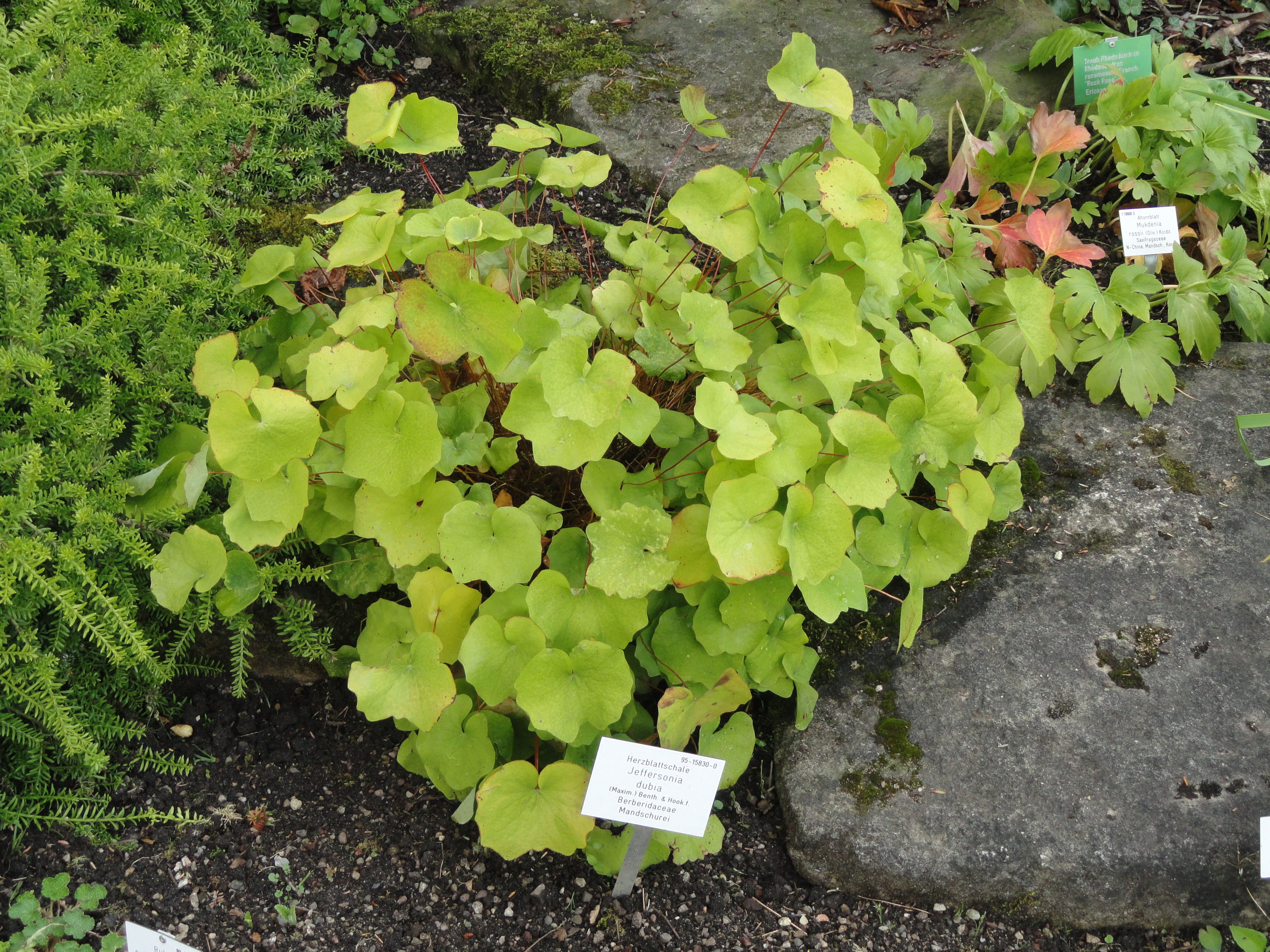 Botanical specimen in the Palmengarten, Frankfurt am Main, Germany.